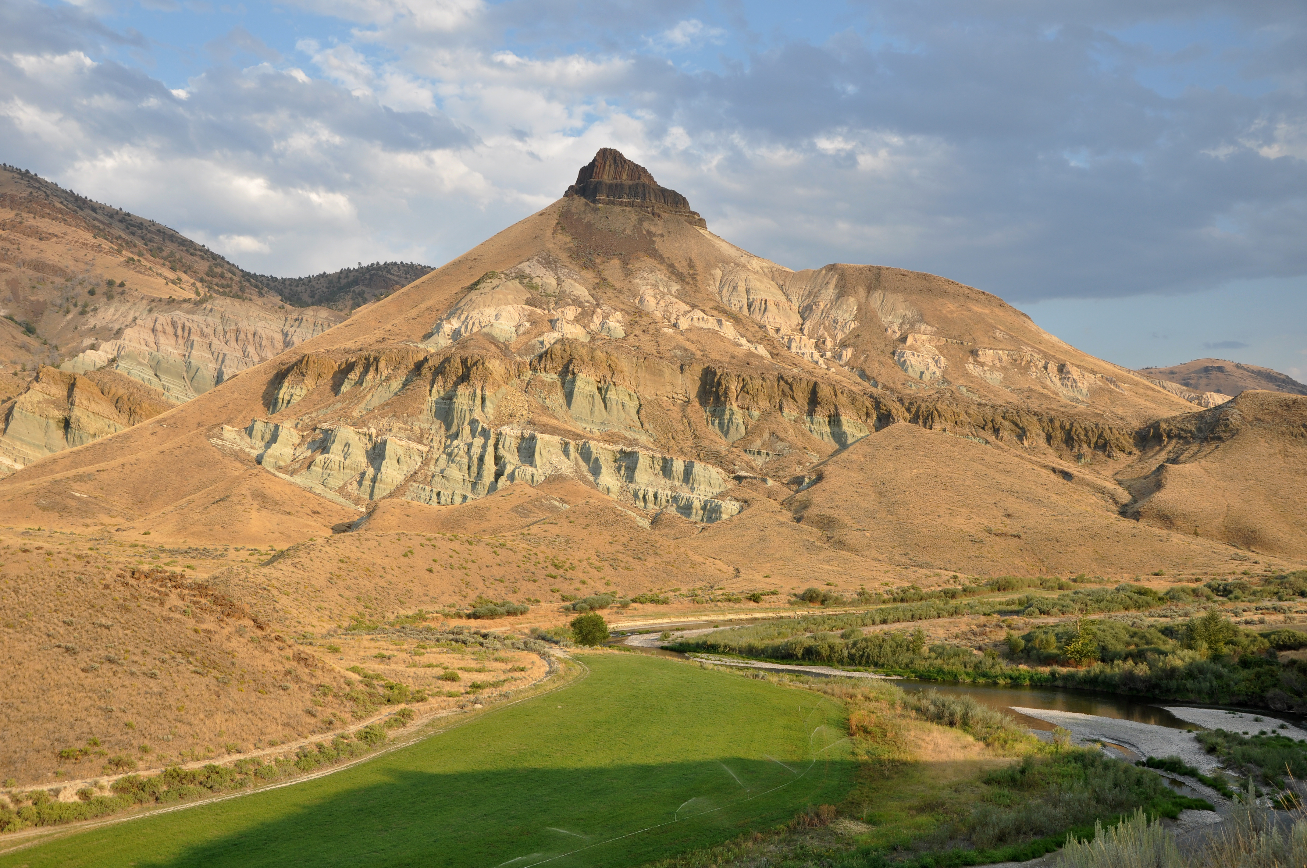 Sheep Rock in the Sheep Rock Unit of the John Day Fossil Beds National Monument in the U.S. state of Oregon. Taken from the Sheep Rock Overlook Trail near sunset.